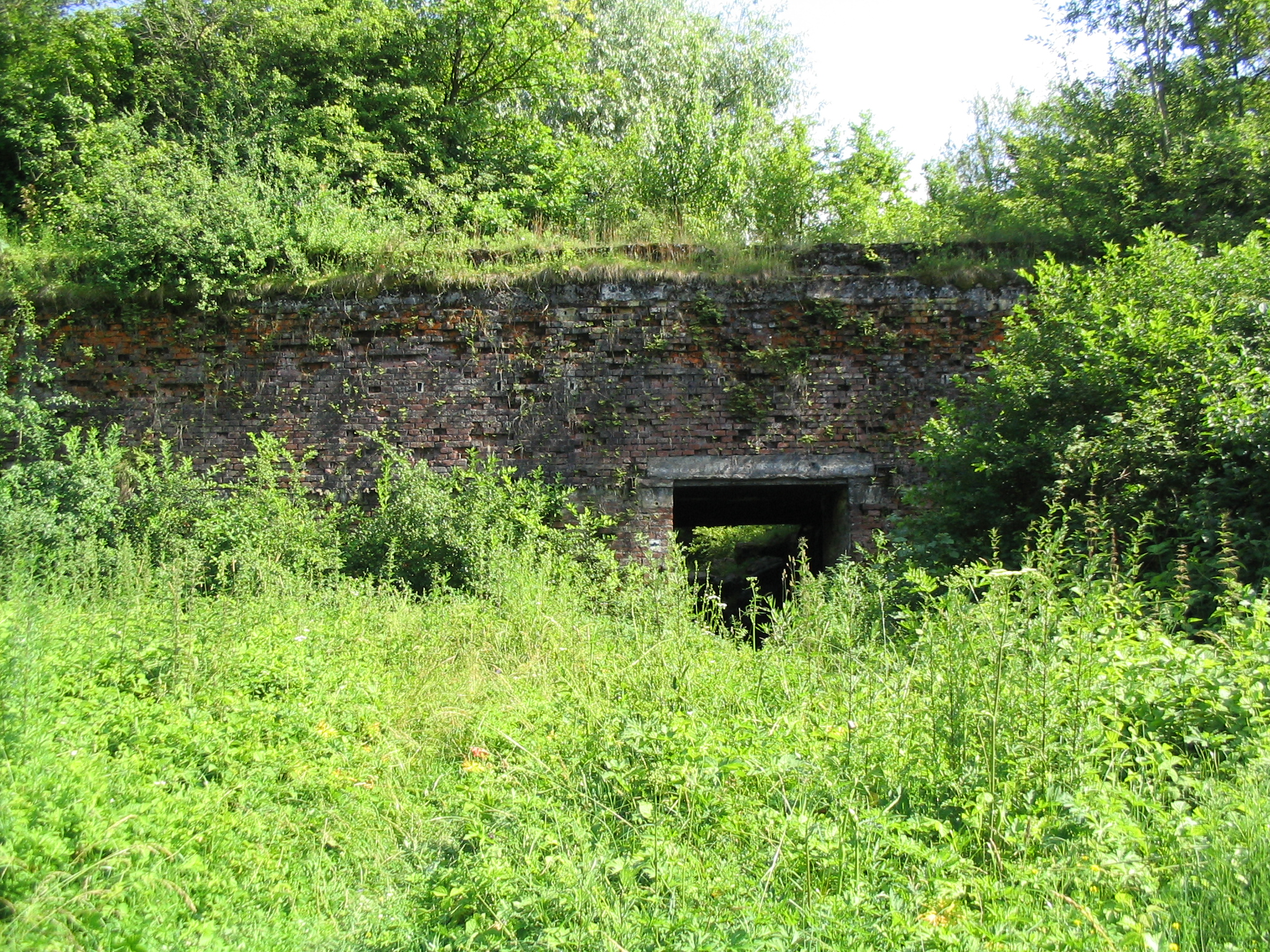 Fort II "Jaksmanice" Author: Goku122